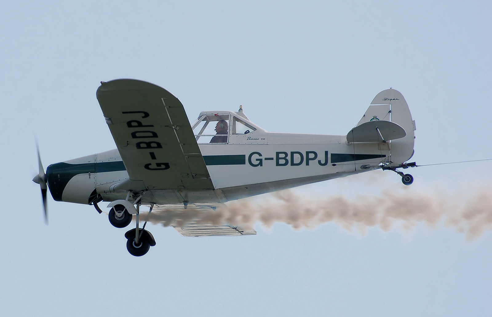 Piper PA-25-235 Pawnee (G-BDPJ) tows a Swift glider during the Swift Aerobatic Team Display at Kemble Battle of Britain Weekend, Cotswold Airport, Gloucestershire, England. The Swift Team display is a Swift glider doing aerobatics (such as rolls and flying upside down) while still on tow by the Pawnee (!), with a Silence SA180 Twister propeller aircraft performing aerobatics near the ensemble. The trail coming from the aircraft is display smoke.